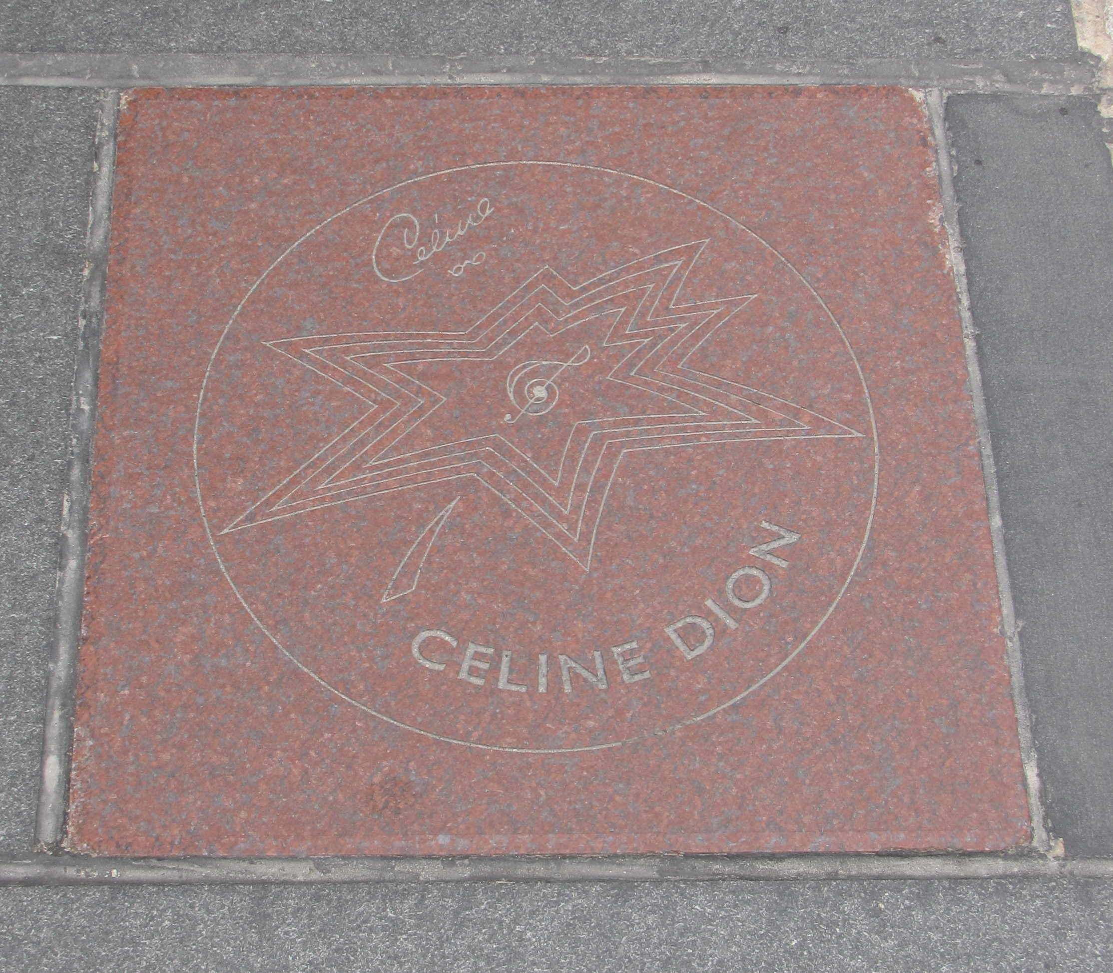 Celine Dion's star on Canada's Walk of Fame